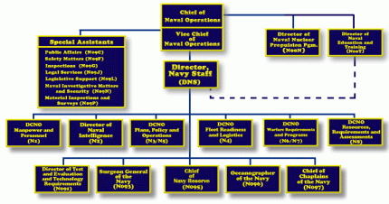 Organisation of the office of the Chief of Naval Operations of the United States Navy